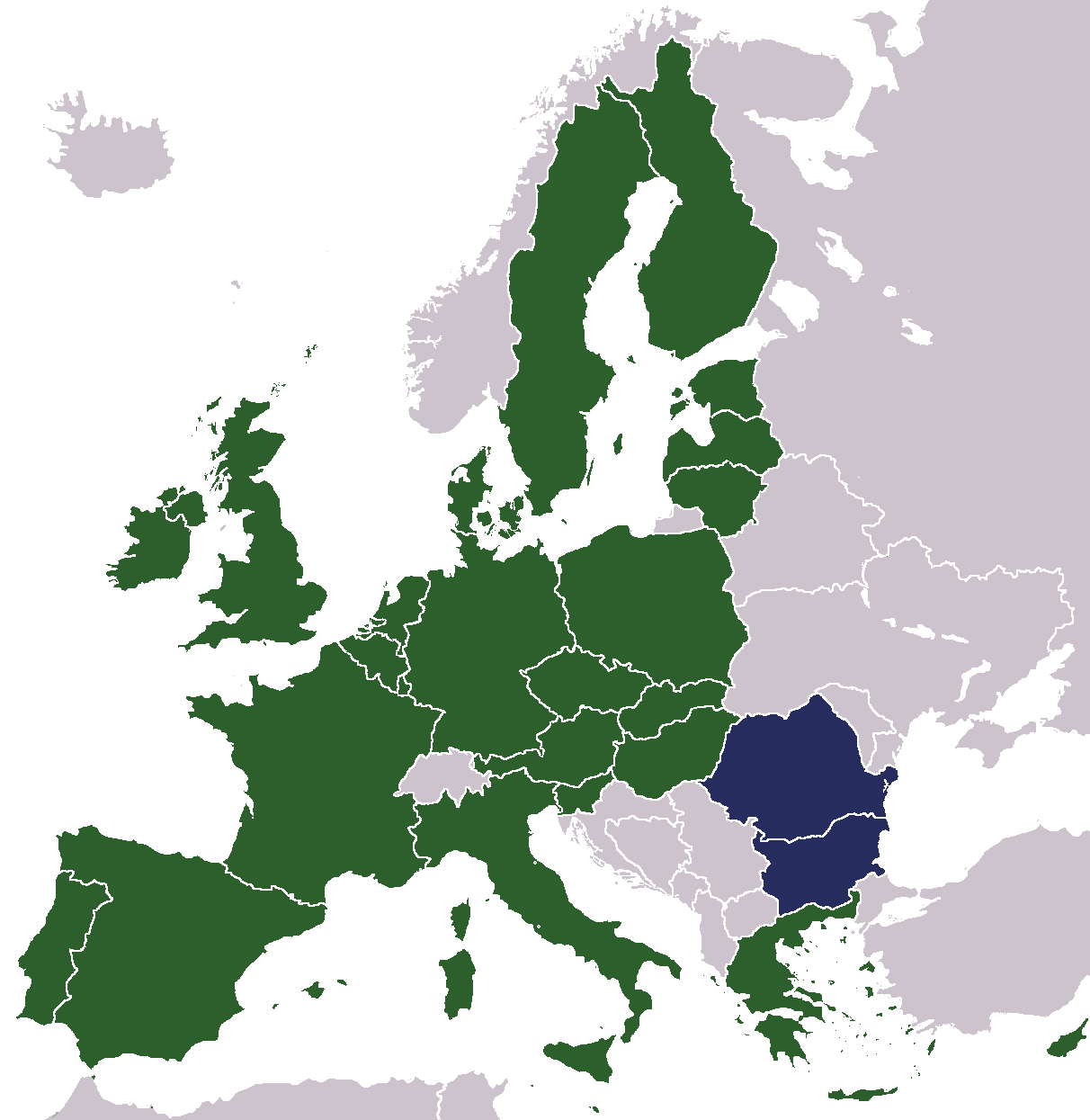 Map showing the states which joined the EU in 2007, along side those already members.